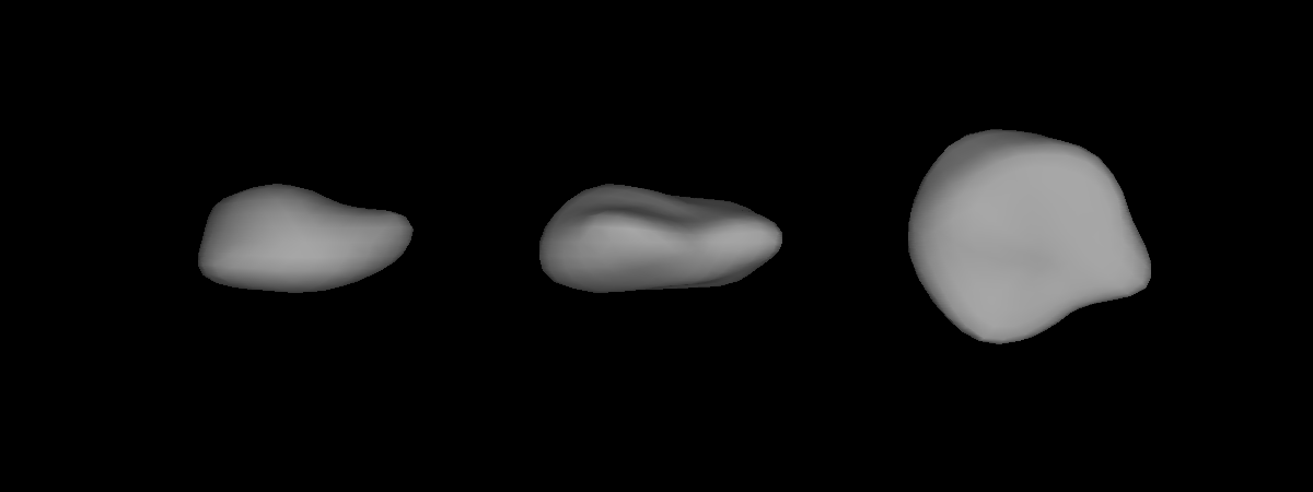 A three-dimensional model of 135 Hertha that was computed using light curve inversion techniques.